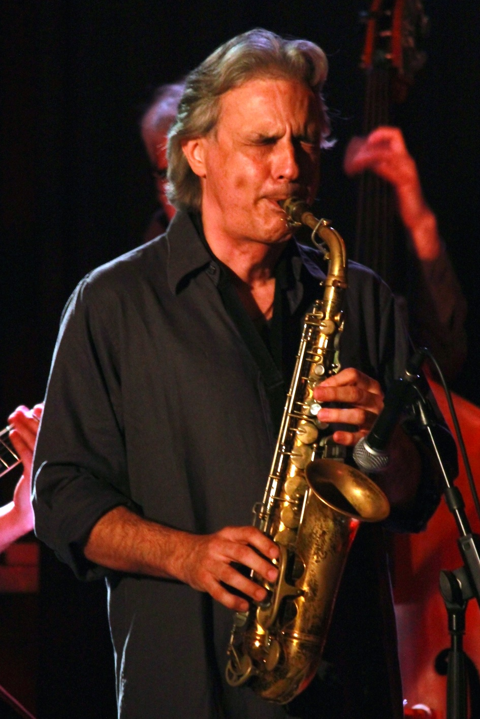 Photography of a performance by Perico Sambeat's Elastic Quintet at Classijazz Jazz Club, Almería (Spain), on November 11, 2012 (color)